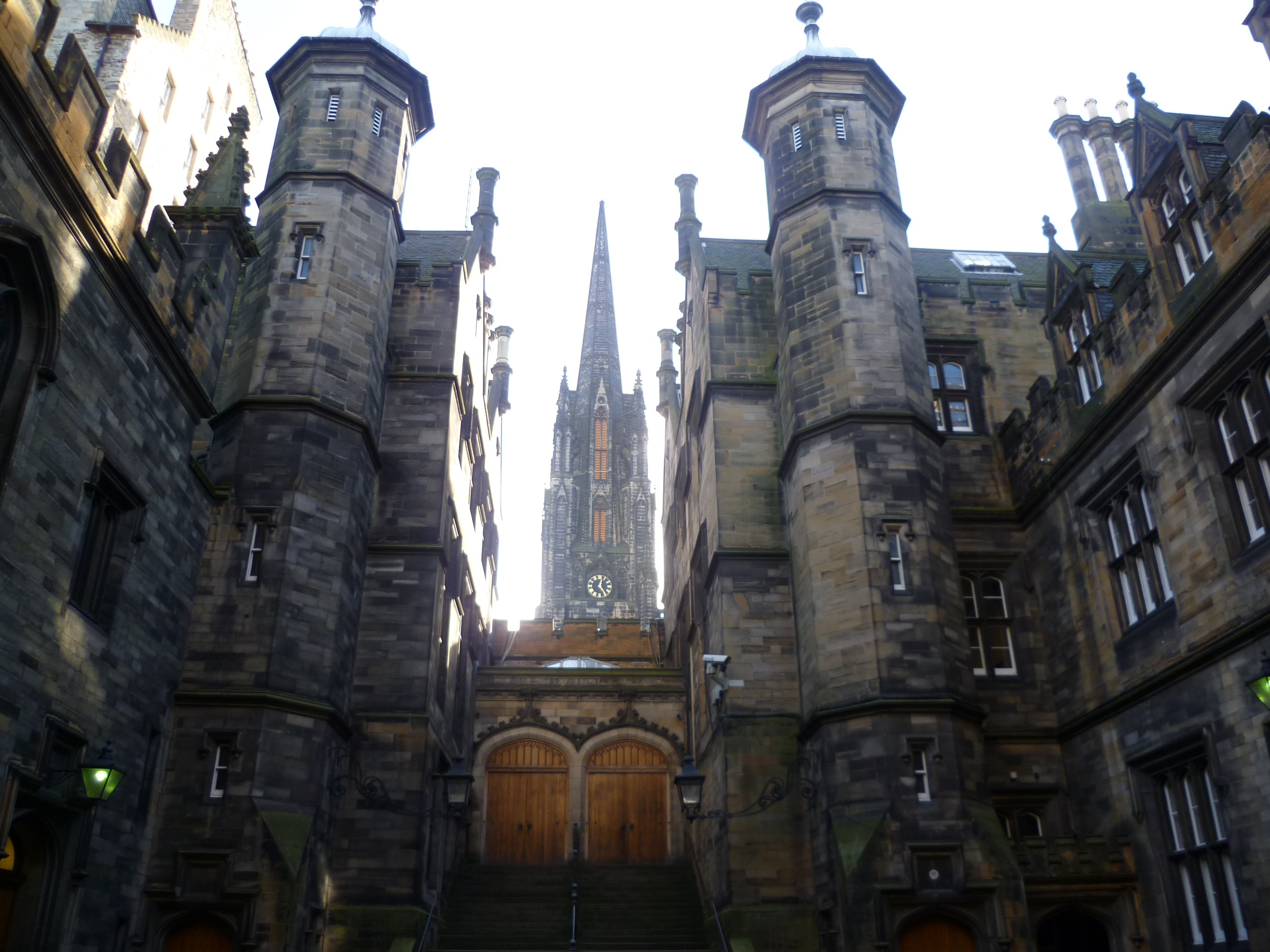 Entrance to the Assembly Hall, New College Quadrangle, Edinburgh